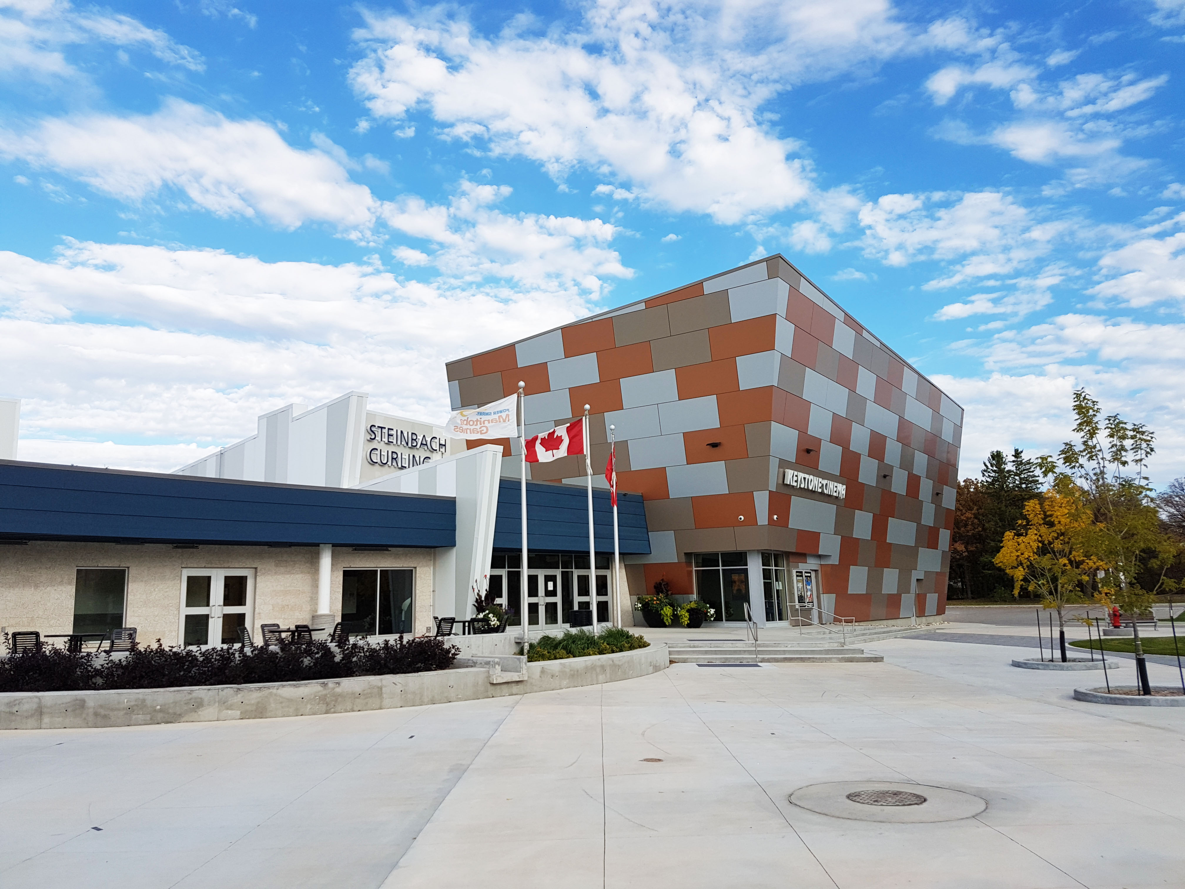 This is the plaza in front of the Steinbach Curling Club and Keystone Cinema in Steinbach, Manitoba.